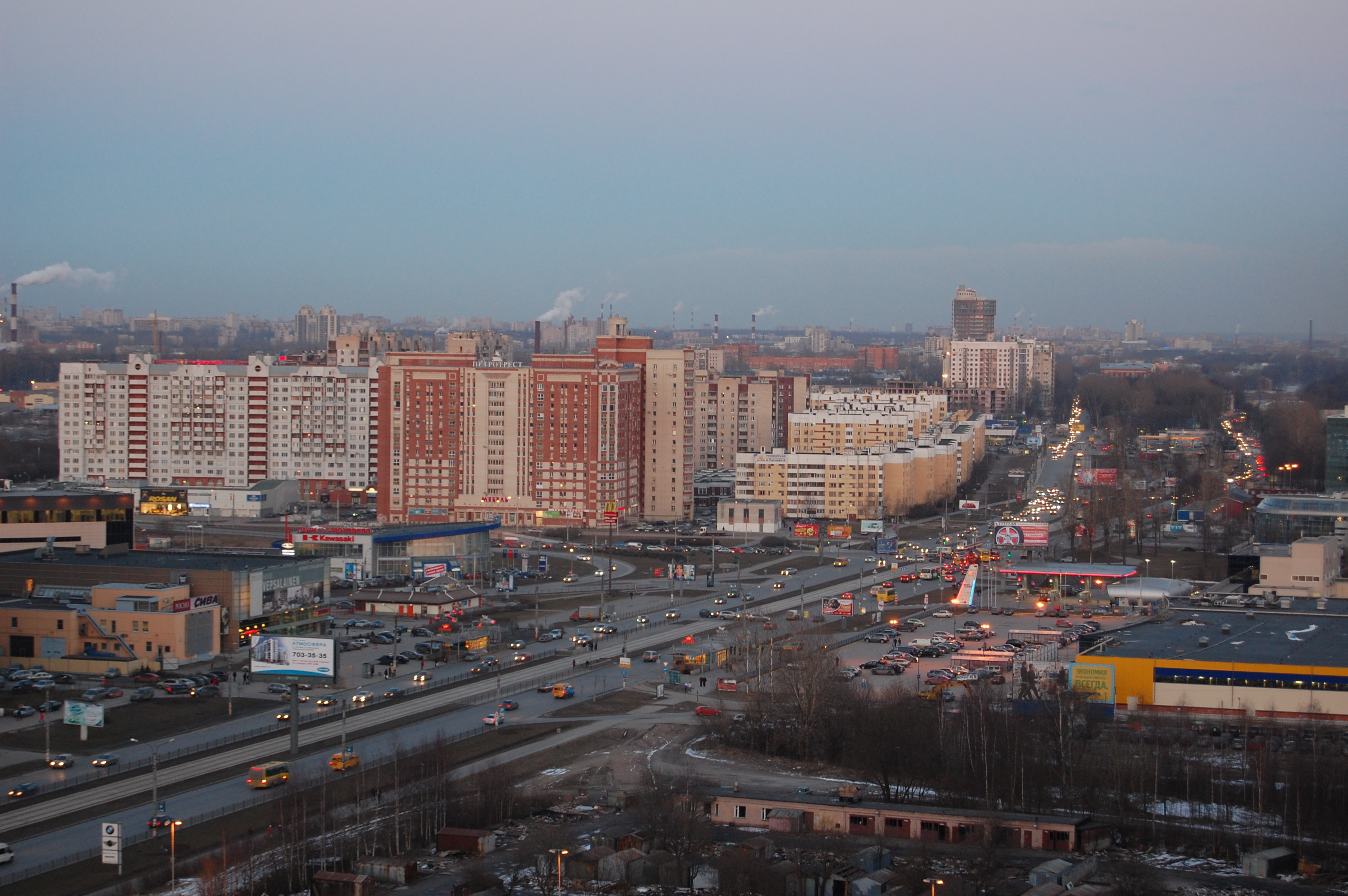 The View of Savushkina Street (Saint Petersburg, Russia) going East (Planernaya St. crossing)